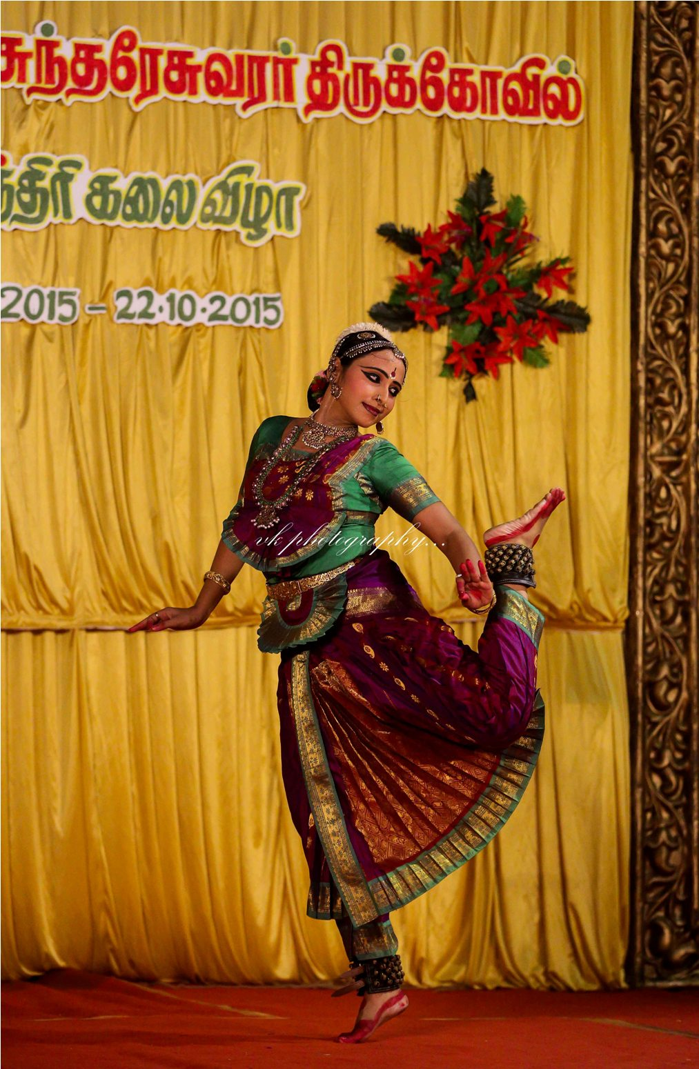 Captured at the Navarathri Dance Festival at the Magnificient heritage treasure, Madurai Meenakshi Amman Temple, Madurai.